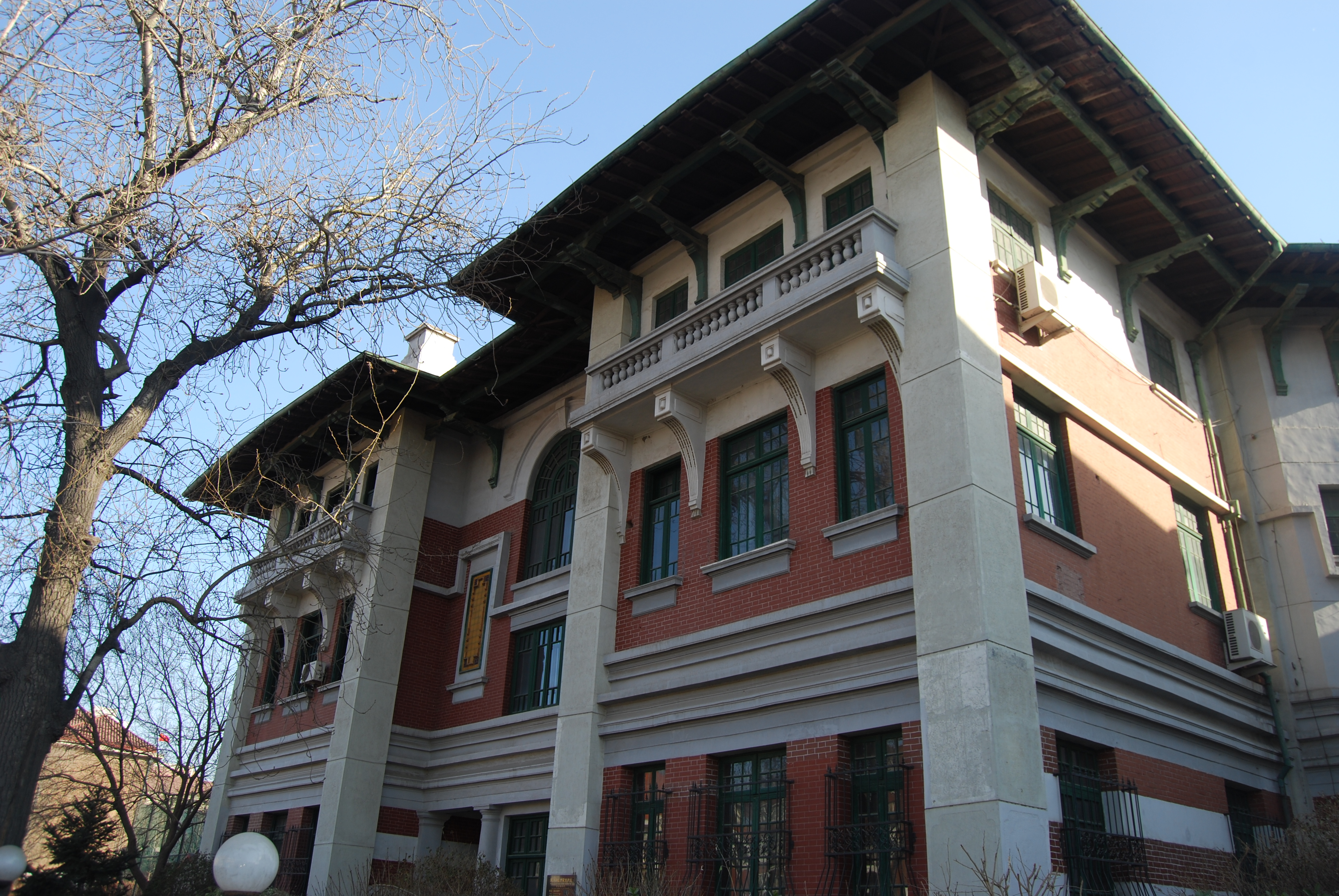 Former residence of admiral Liu Guanxiong (1861–1927) in Machang Dao No. 123, Hexi District, Tianjin